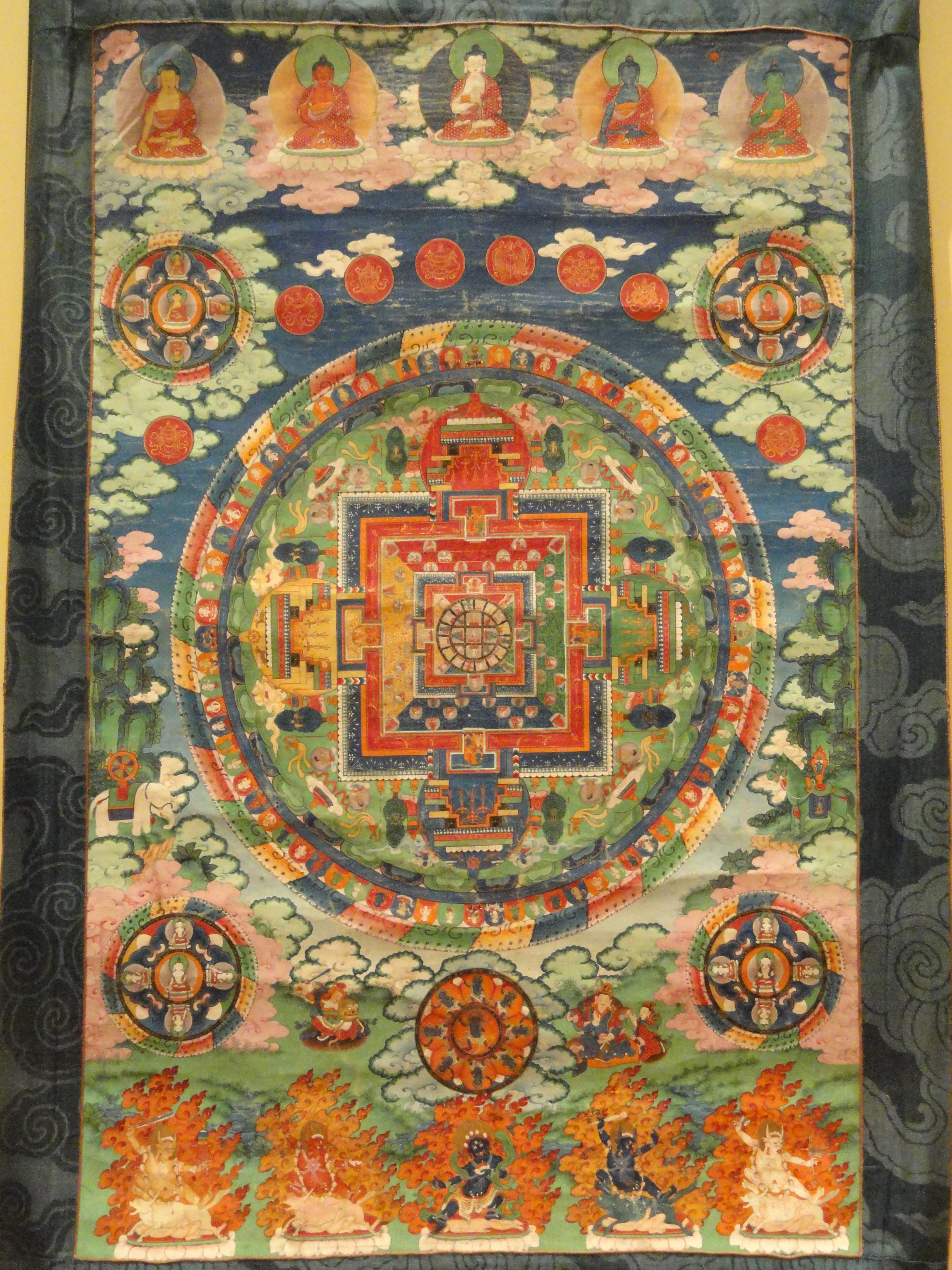 Exhibit in the Royal Ontario Museum, Toronto, Ontario, Canada. This exhibit is old enough so that it is in the public domain, and photography was permitted in the museum. I took this photograph and release it into the public domain.